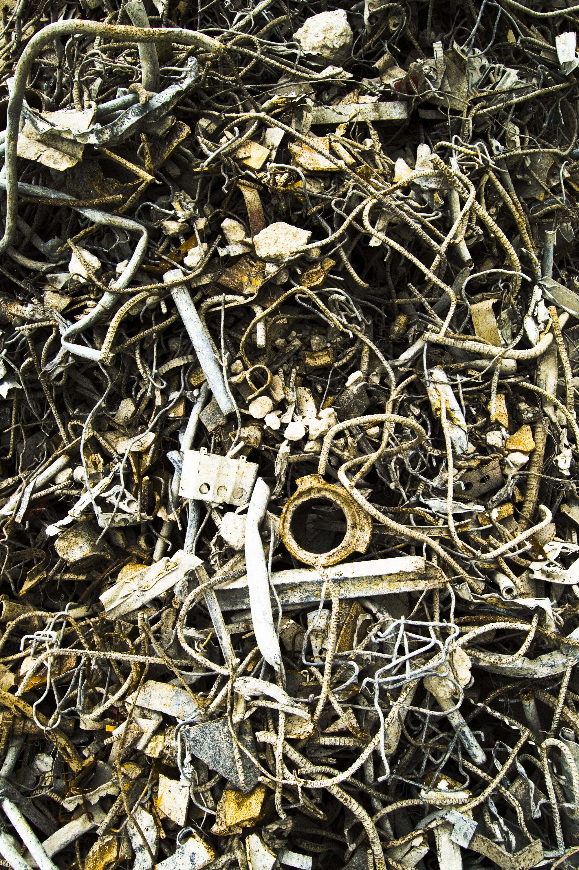 A heap of scrap metal.